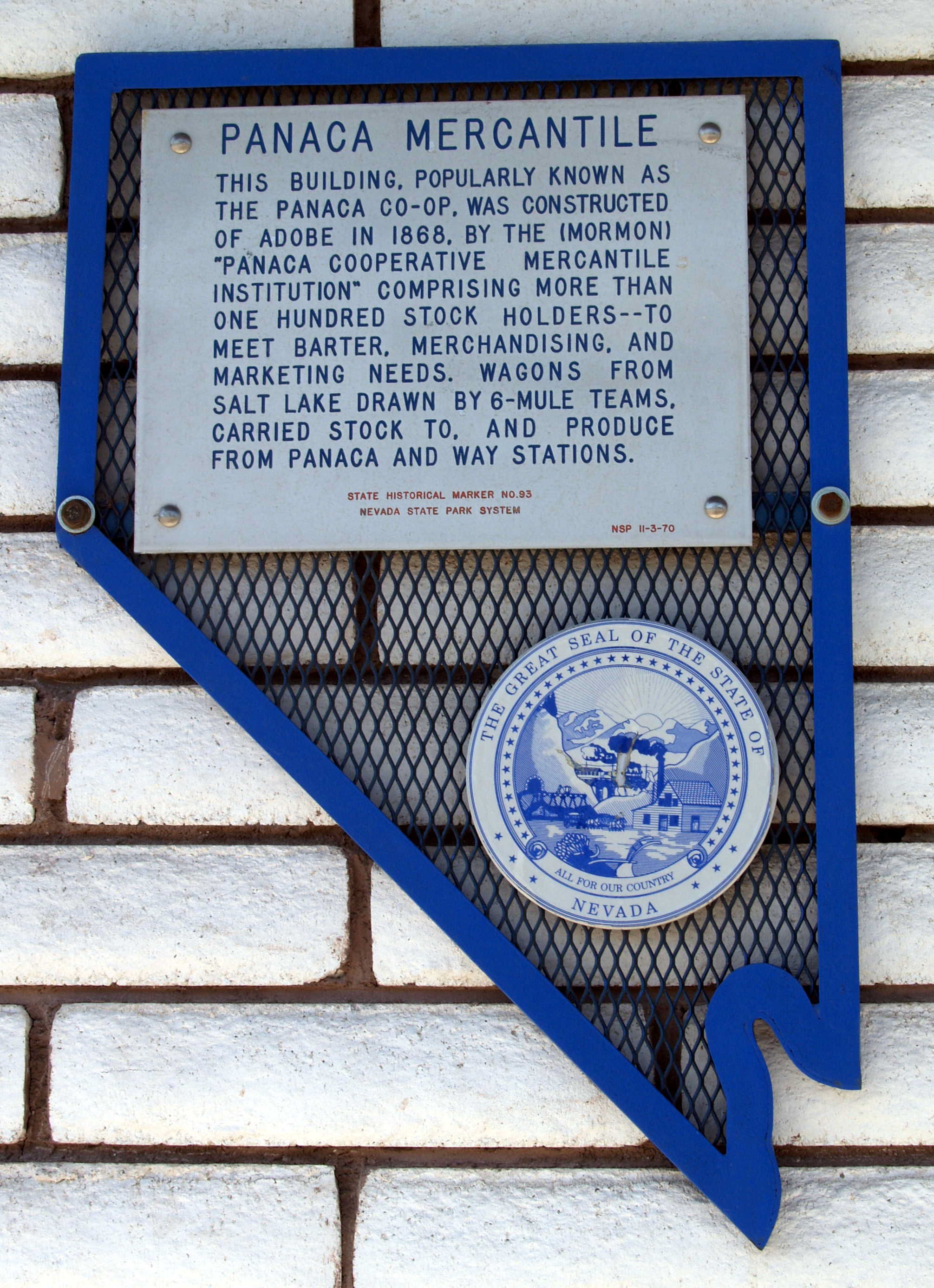 A plaque outside of a small business in Panaca, Nevada.